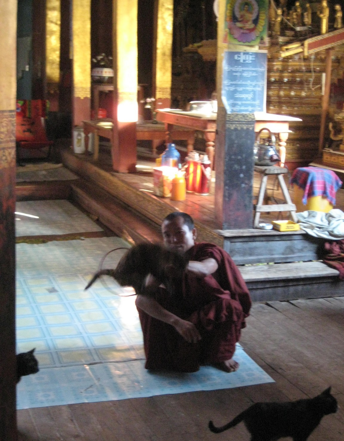 Inle Lake, Shan State